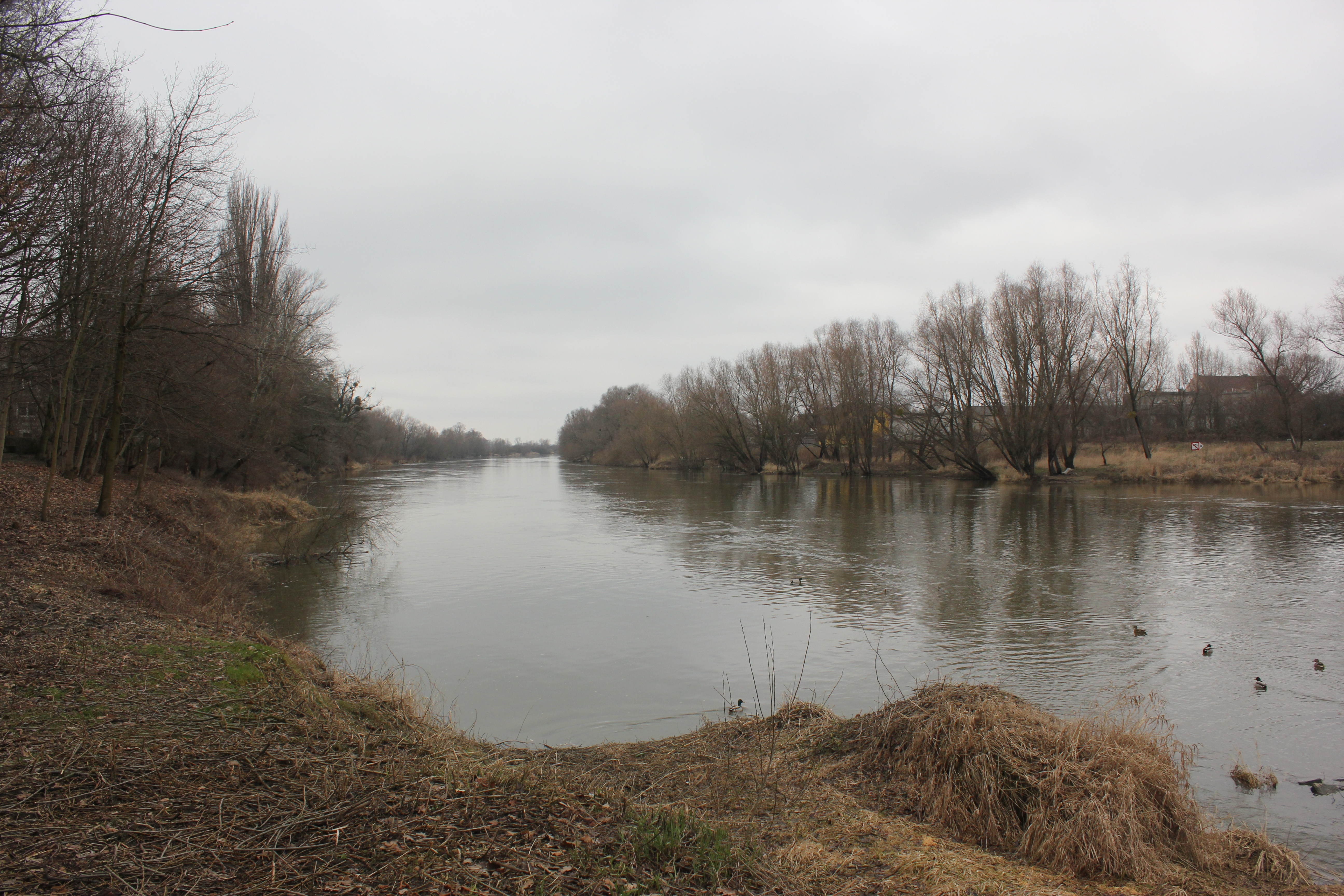 Brzeg - the Oder